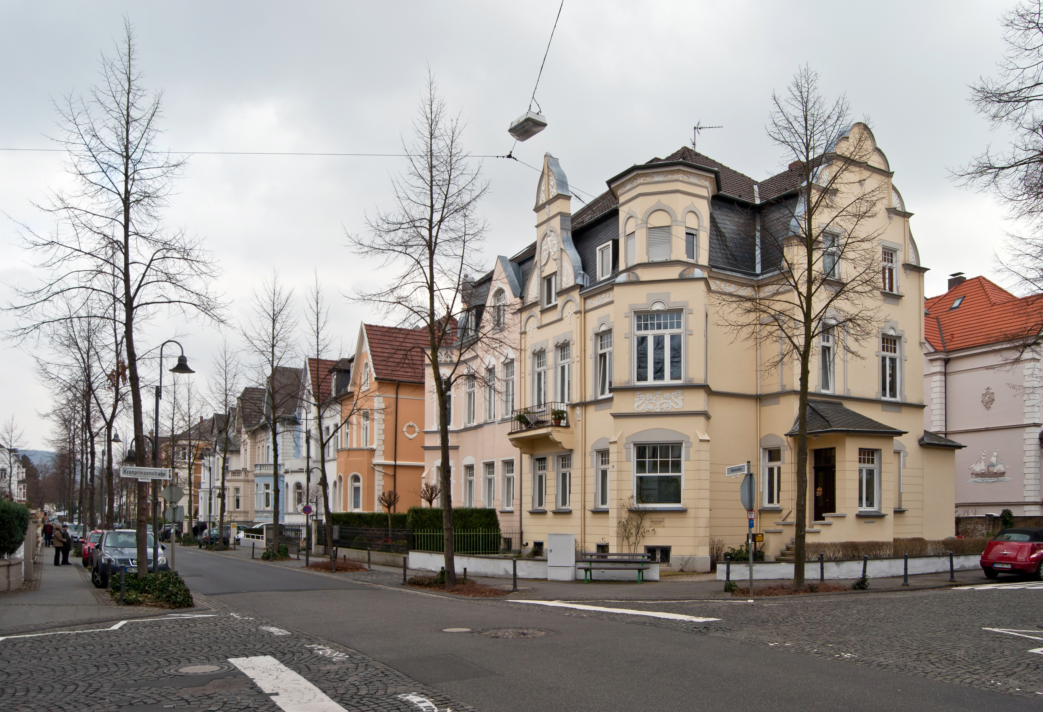 Bonn (North Rhine-Westphalia, Germany) – Bad Godesberg – mansion district – street Rheinallee, at the crossroads with the Kronprinzenstraße, towards east This image shows a heritage building in Germany, located in the North Rhine-Westphalian city Bonn (no. 1349). This photograph was taken with a Nikon D3000